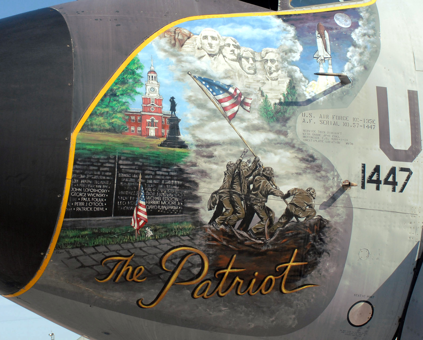 "The unique nose art on painted this KC-135, tail number 71447 is about to go on permanent display. Up until today the KC-135E had been assigned to the 185th ARW Iowa, Air National Guard. Today a flight crew from Tinker AFB is in Sioux City to fly the aging aircraft to Davis-Monthan AFB in Tucson, AZ where the aircraft and the nose art will most likely be retired. The Sioux City, Iowa based 185th ARW is on track to convert to the newer KC-135 R model during this calendar year. USAF Photo by: MSGT Vincent De Groot"